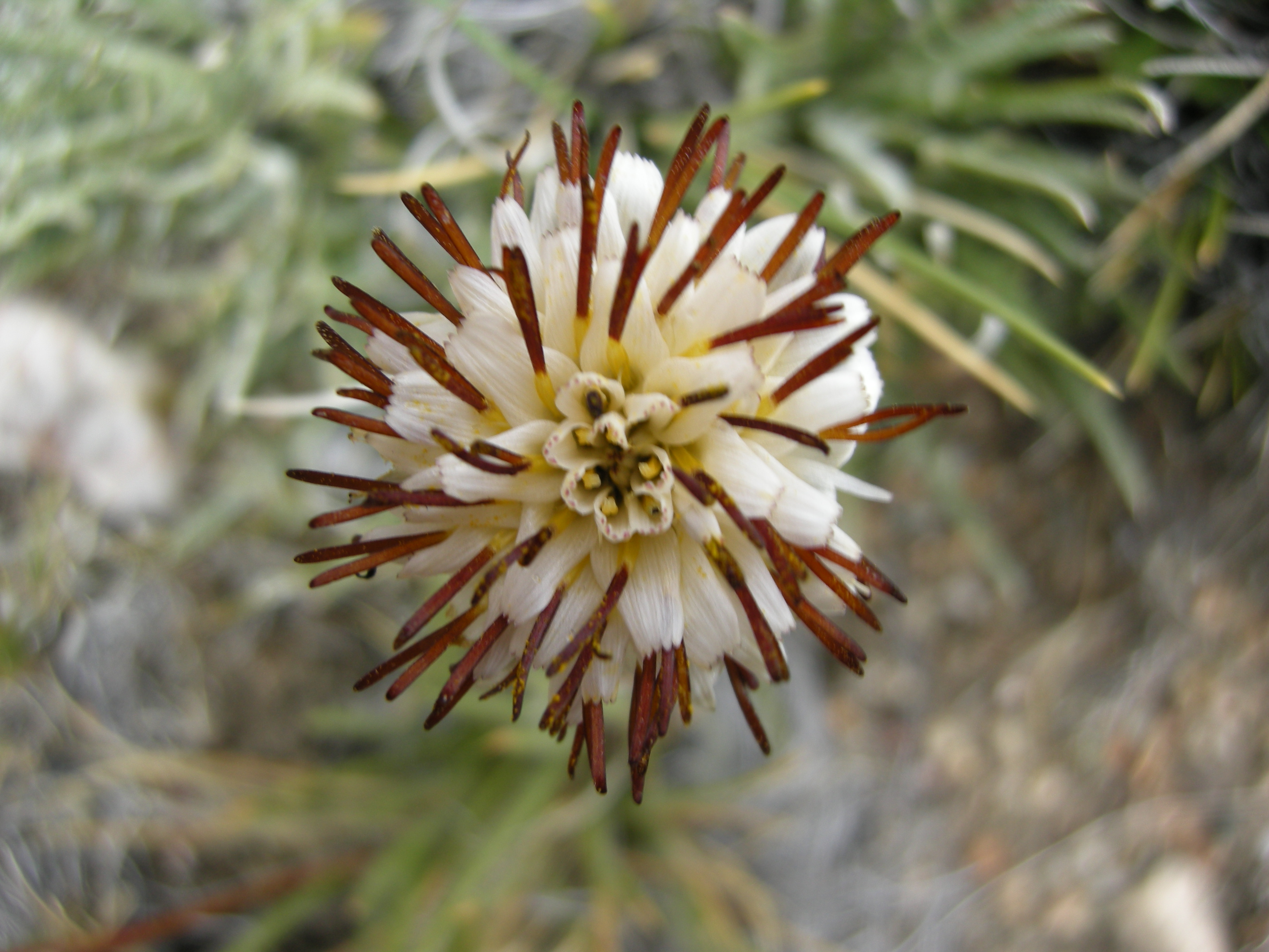 Inflorescence of the species Hypochaeris incana. Picture taken in Belgrano peninsula, in the Perito Moreno national park (Santa Cruz provincia, Argentina).